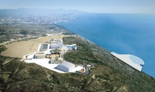 View of the Ciudad de la Luz, new cinematographic studios based in Alicante.